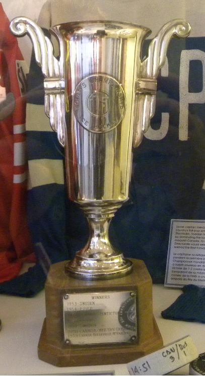 Trophy awarded to the winner of the IIHF Ice Hockey World Championships from 1953 until 1959.